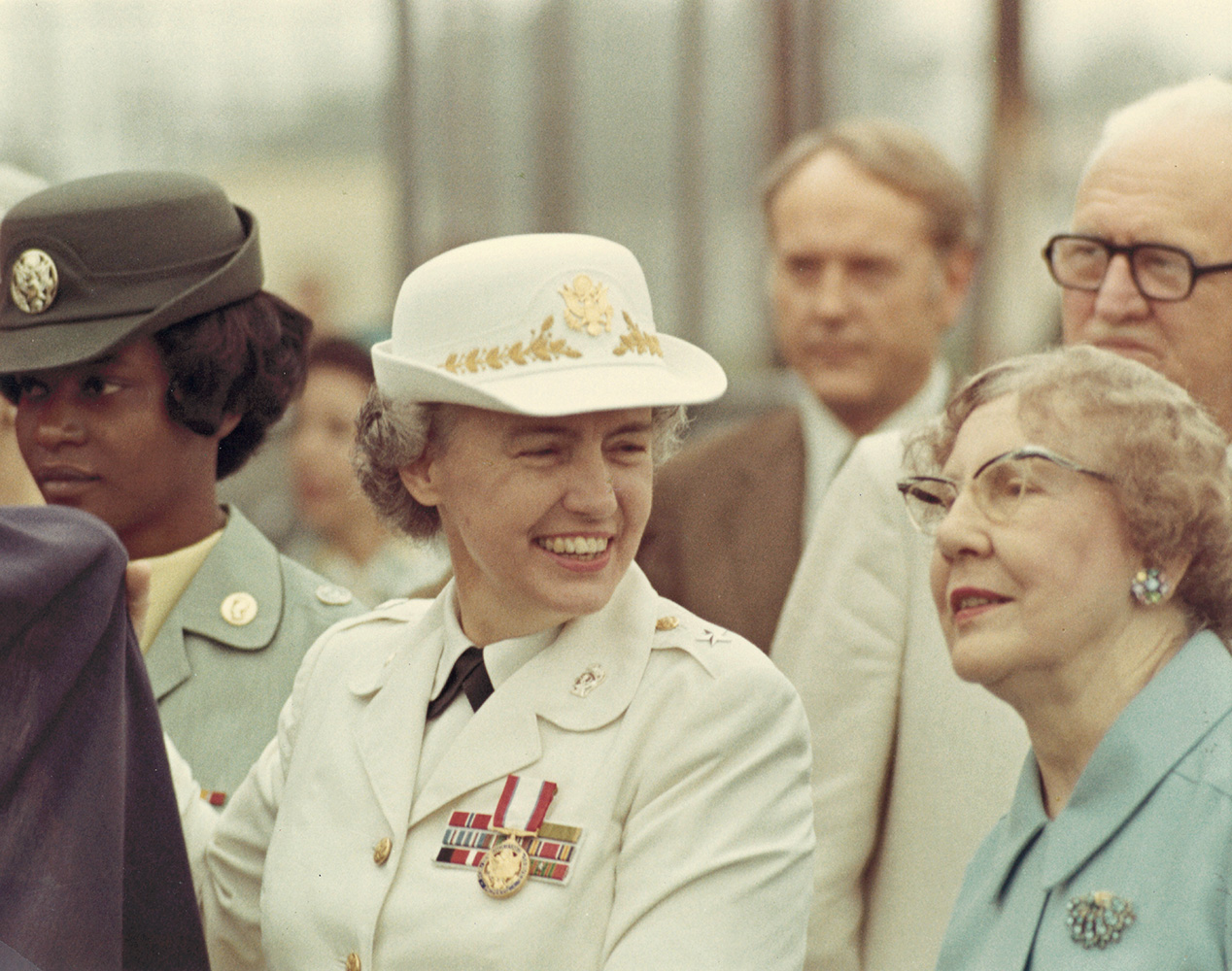 General Elizabeth P. Hoisington shares a moment at her retirement review at WAC Center, For McClellan, with her mother, Mrs. Gregory Hoisington, 30 July 1971.